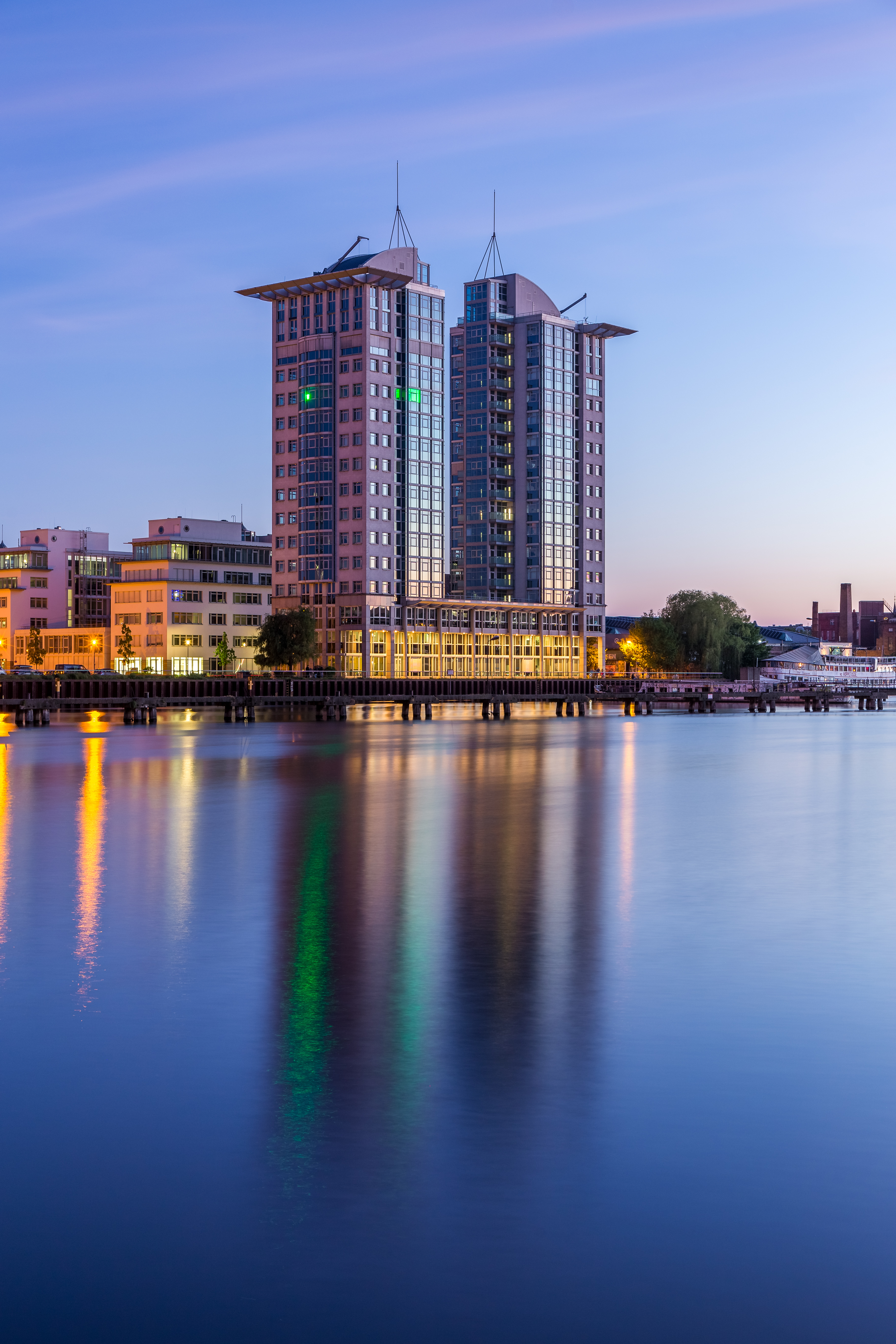 The TwinTowers (Fanny-Zobel-Strasse, Berlin-Treptow) as seen from the opposite side of the river Spree.